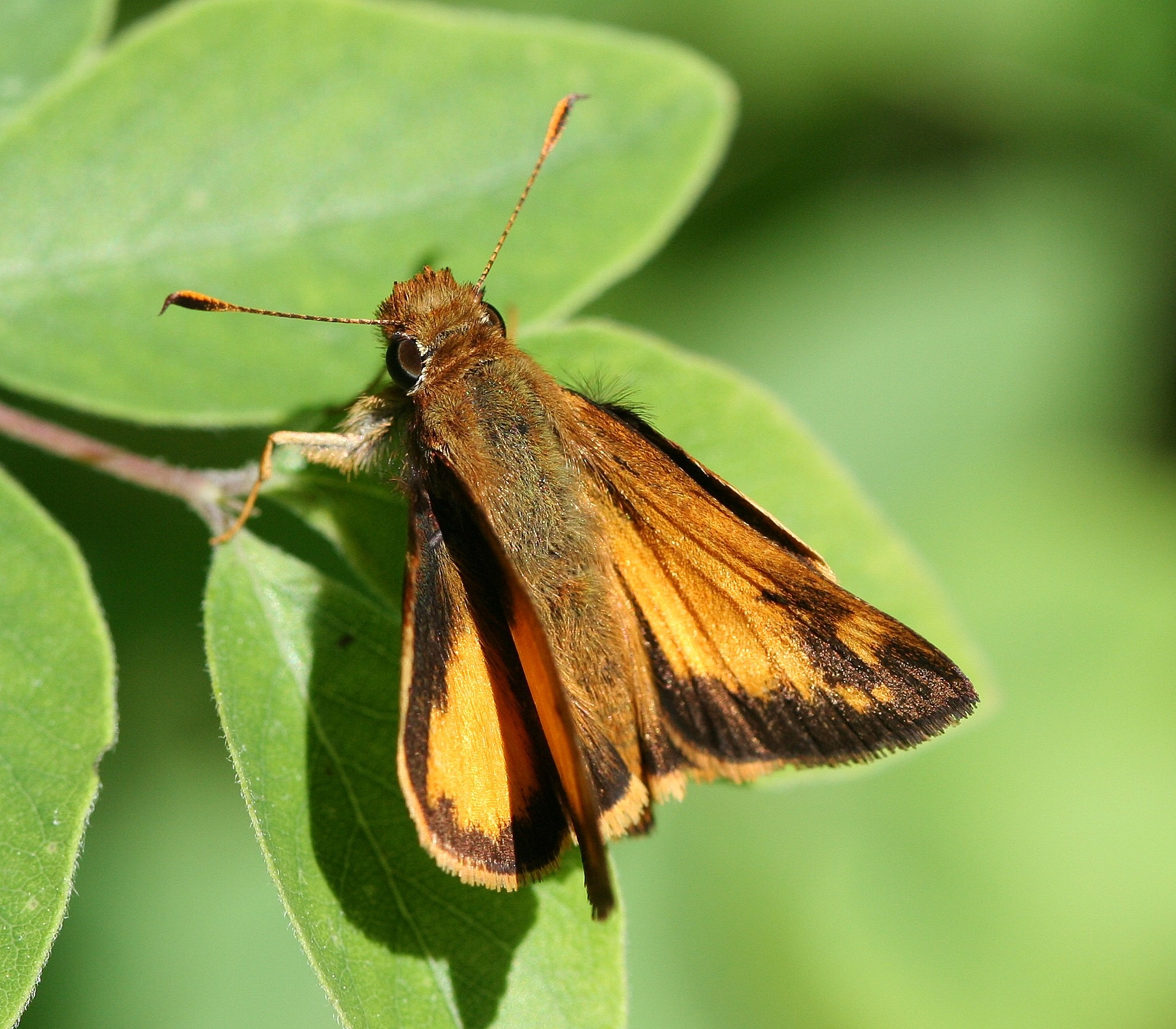 Male Zabulon Skipper (Poanes zabulon)